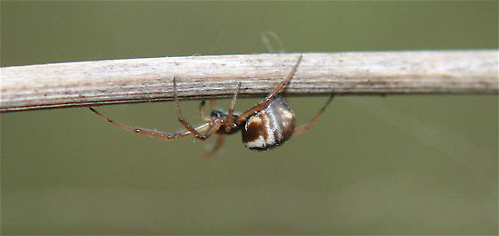 A Female Bowl and Doily Spider (Frontinella pyramitela).